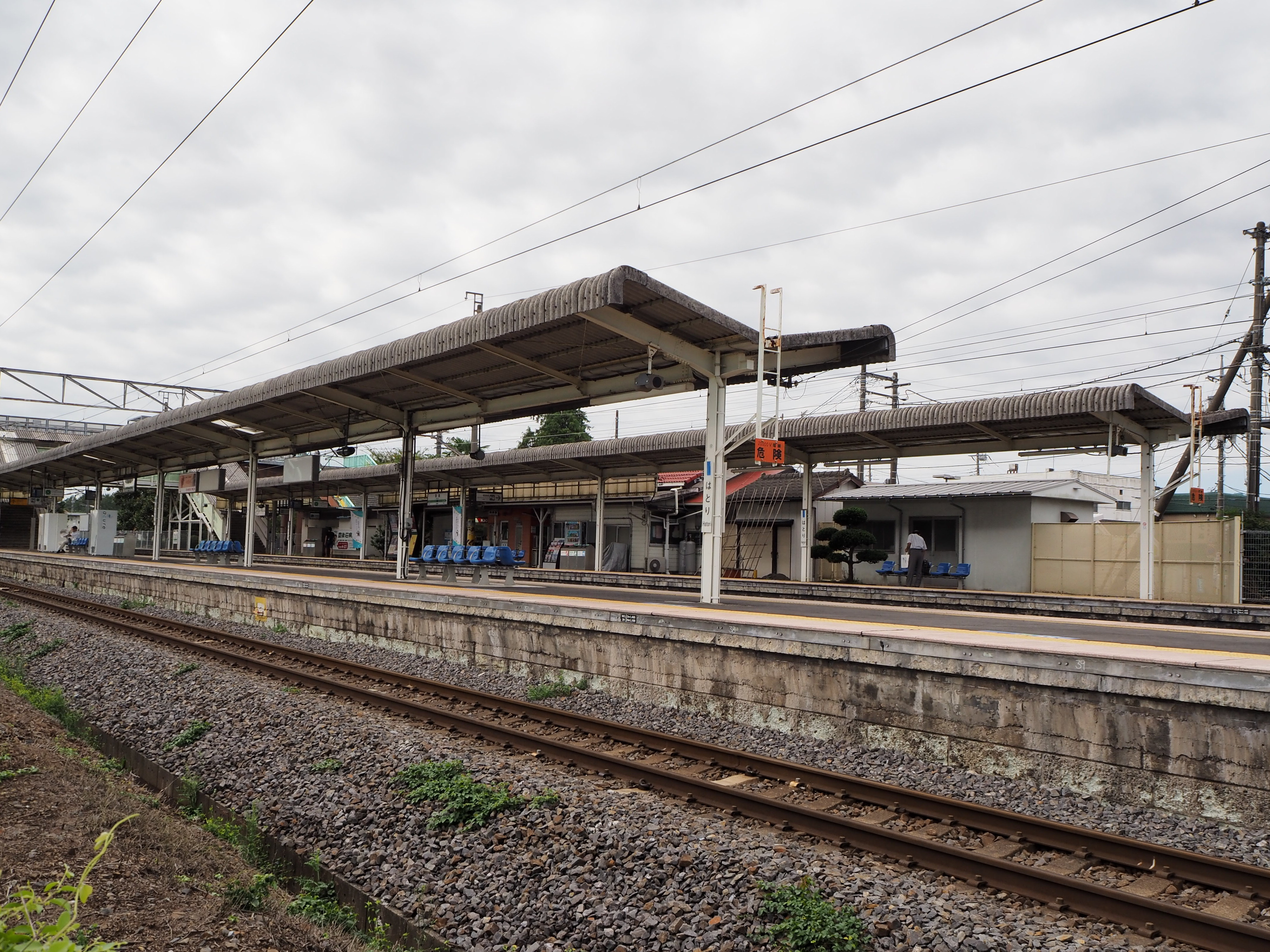 Platforms of Hatori Station